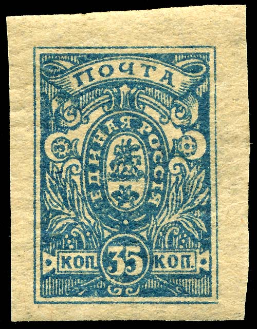 Stamps Army of South Russia (General Denikin)